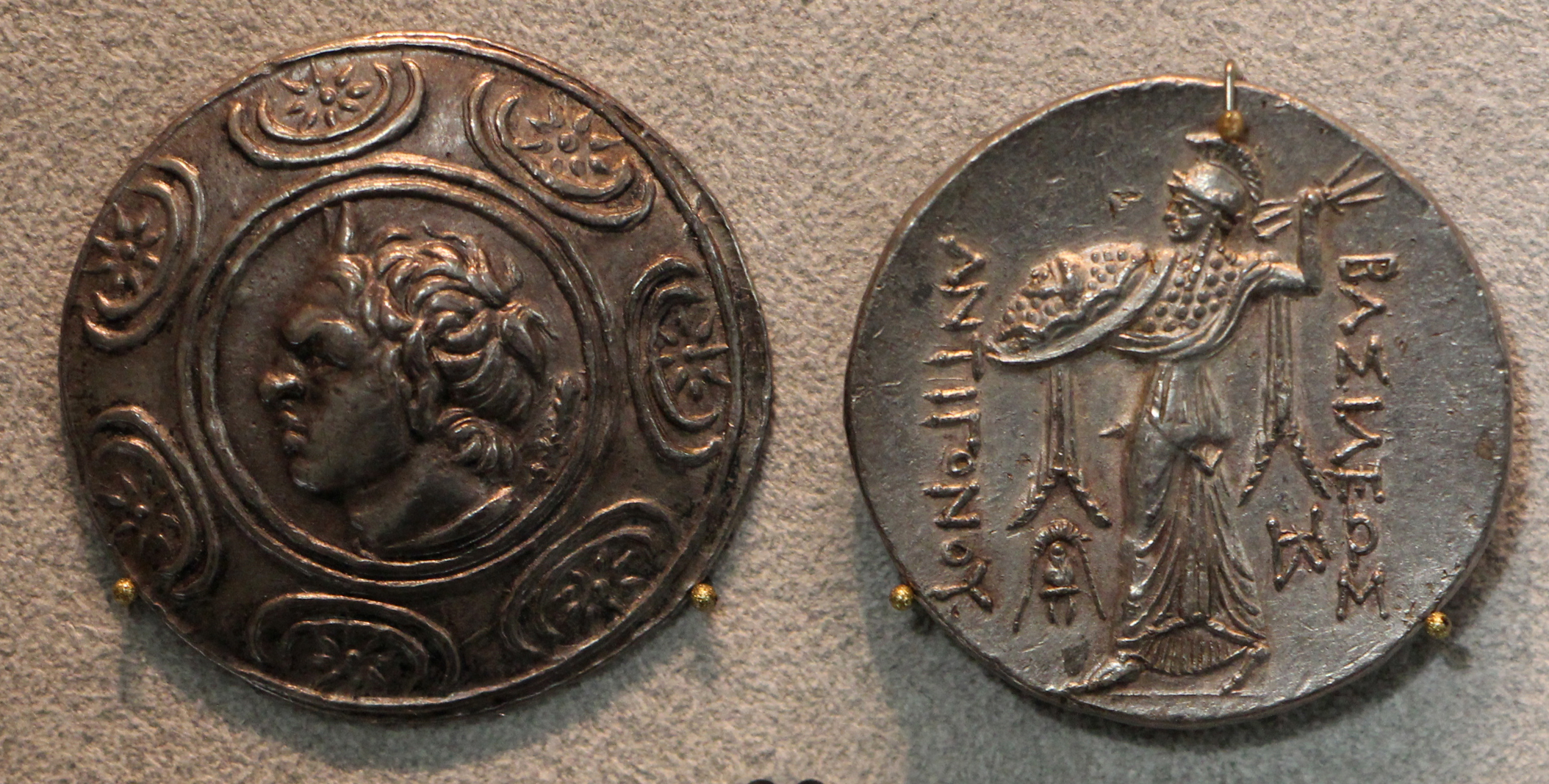 Ancient Greek coins in the Altes Museum Berlin